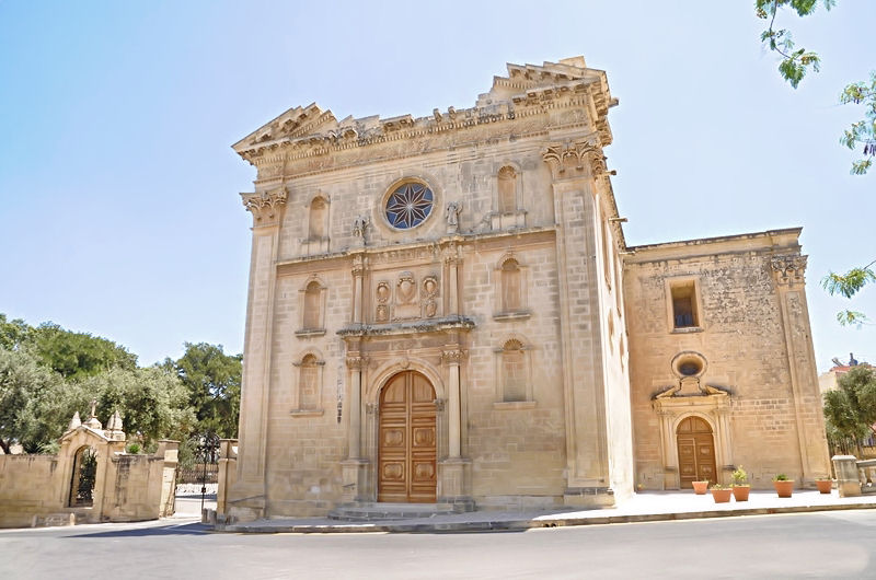 Malta